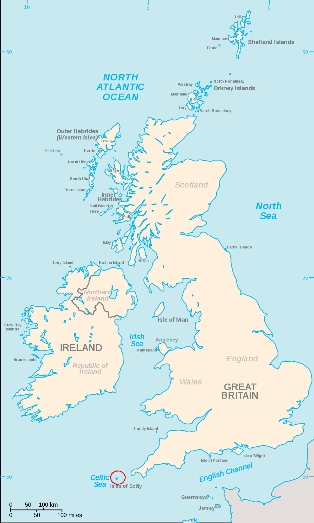 A map of the British Isles, with the largest islands and archipelagos labelled and a red circle around the County of the Scilly Isles.(Scilly Isles)